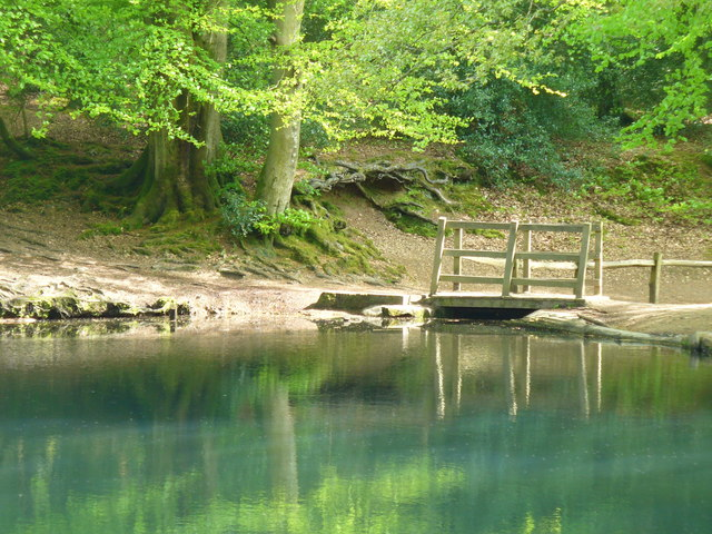 Waggoners Wells Spring colours at the outflow of the middle pond. These were probably built as medieval fish ponds.